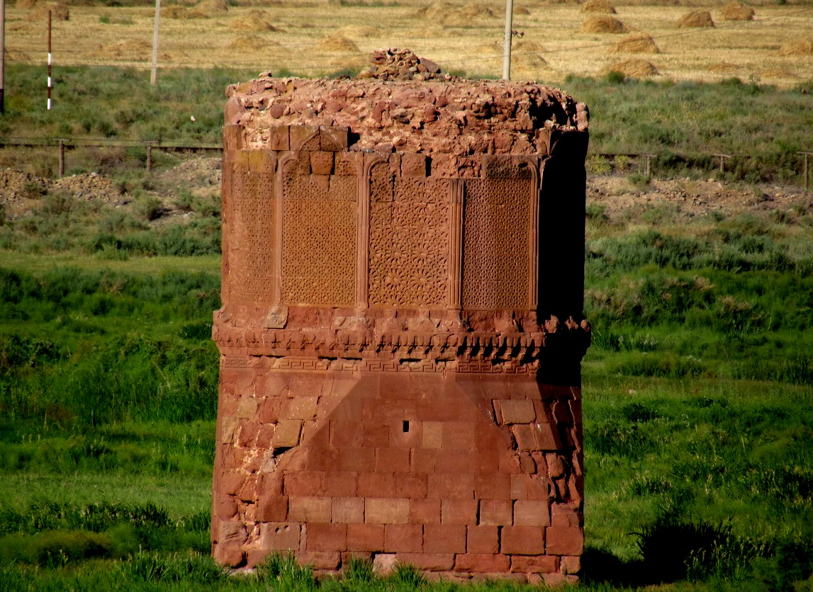 Jugha panoram